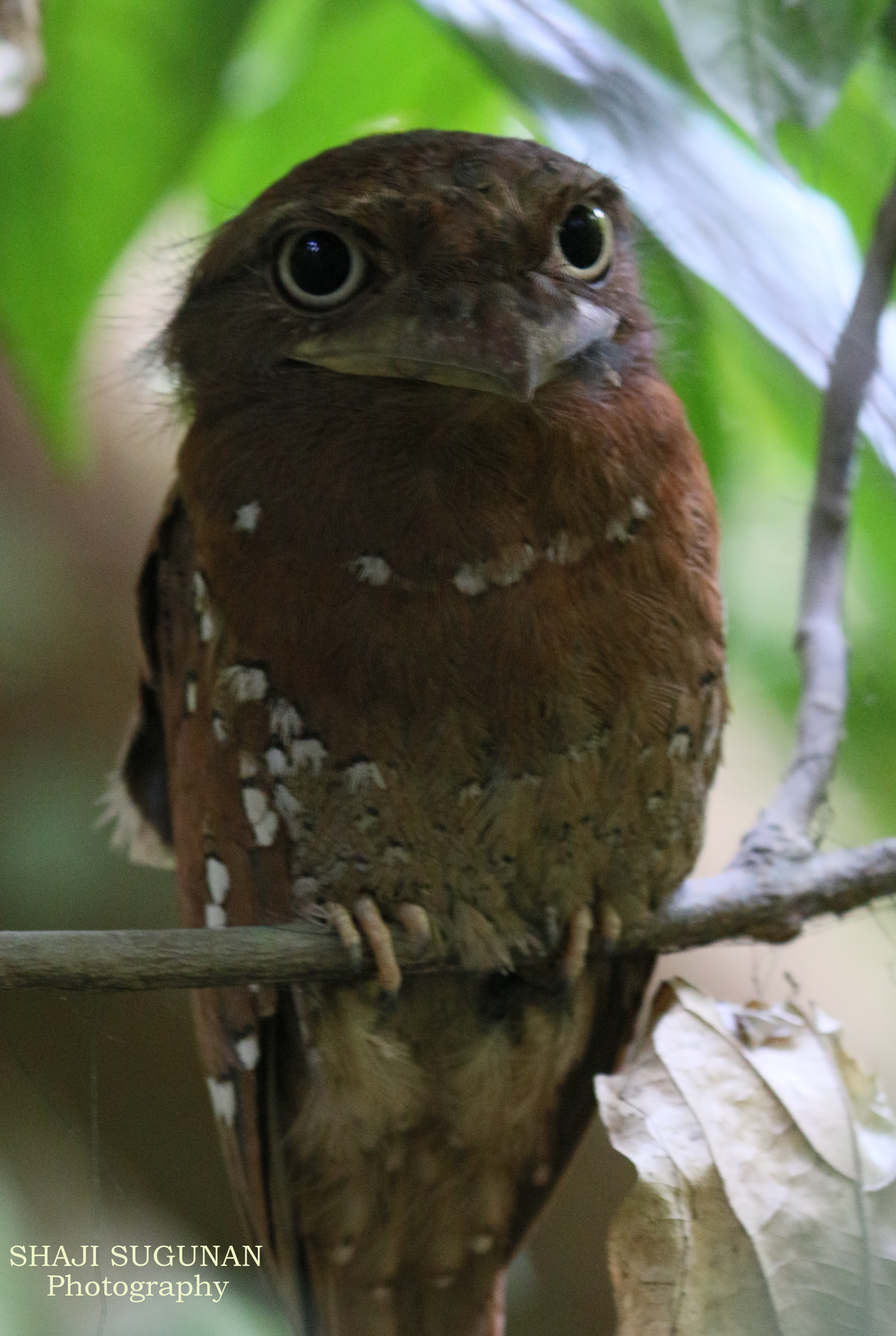 Sri Lanka Frogmouth, Sri Lankan Frogmouth or Ceylon Frogmouth (Batrachostomus moniliger) is a small frogmouth found in the Western Ghats of south India and Sri Lanka. Related to the nightjars, it is nocturnal and is found in forest habitats. The plumage coloration resembles that of dried leaves and the bird roosts quietly on branches, making it difficult to see. Each has a favourite roost that it uses regularly unless disturbed. It has a distinctive call that is usually heard at dawn and dusk. The sexes differ slightly in plumage. — at Thattekadu.